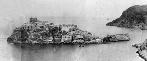 Peñón de Vélez de la Gomera, with La Isleta attached on the right (east) - still an island (or two?) separated from Moroccan coast